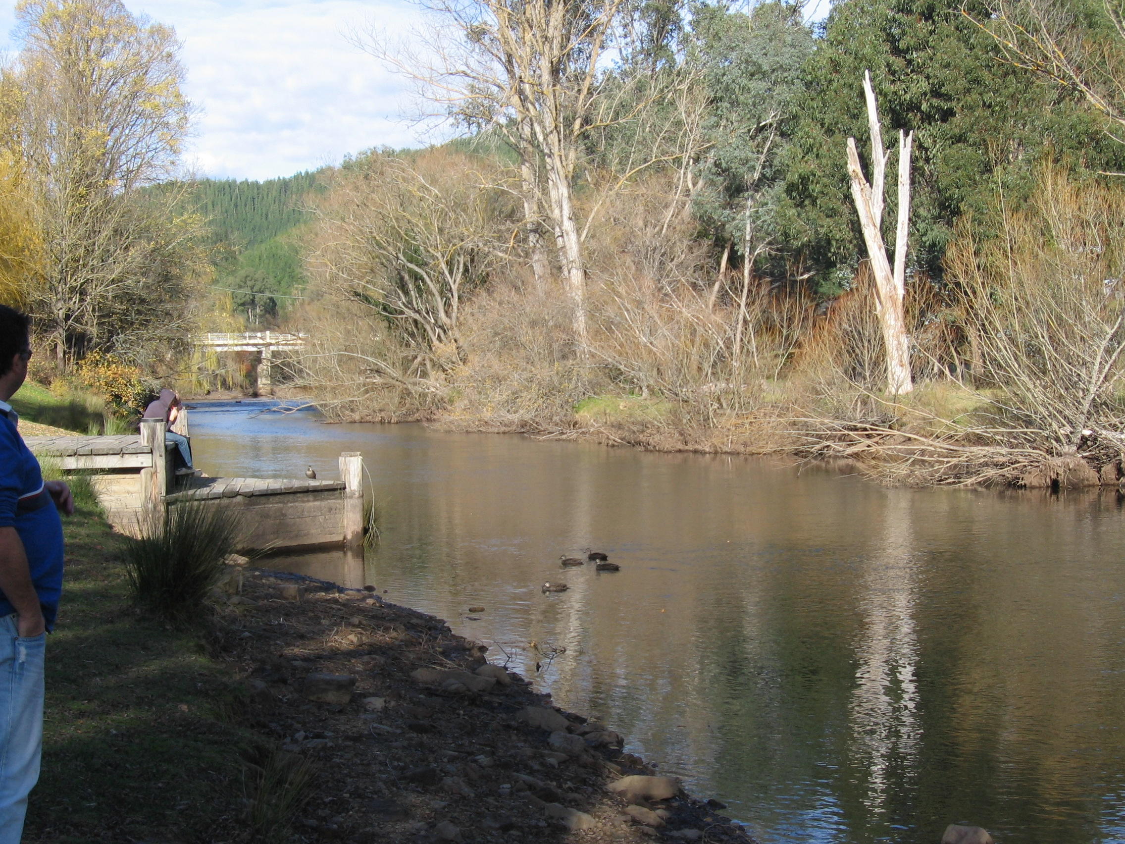 The Ovens River at Porepunkah, Victoria